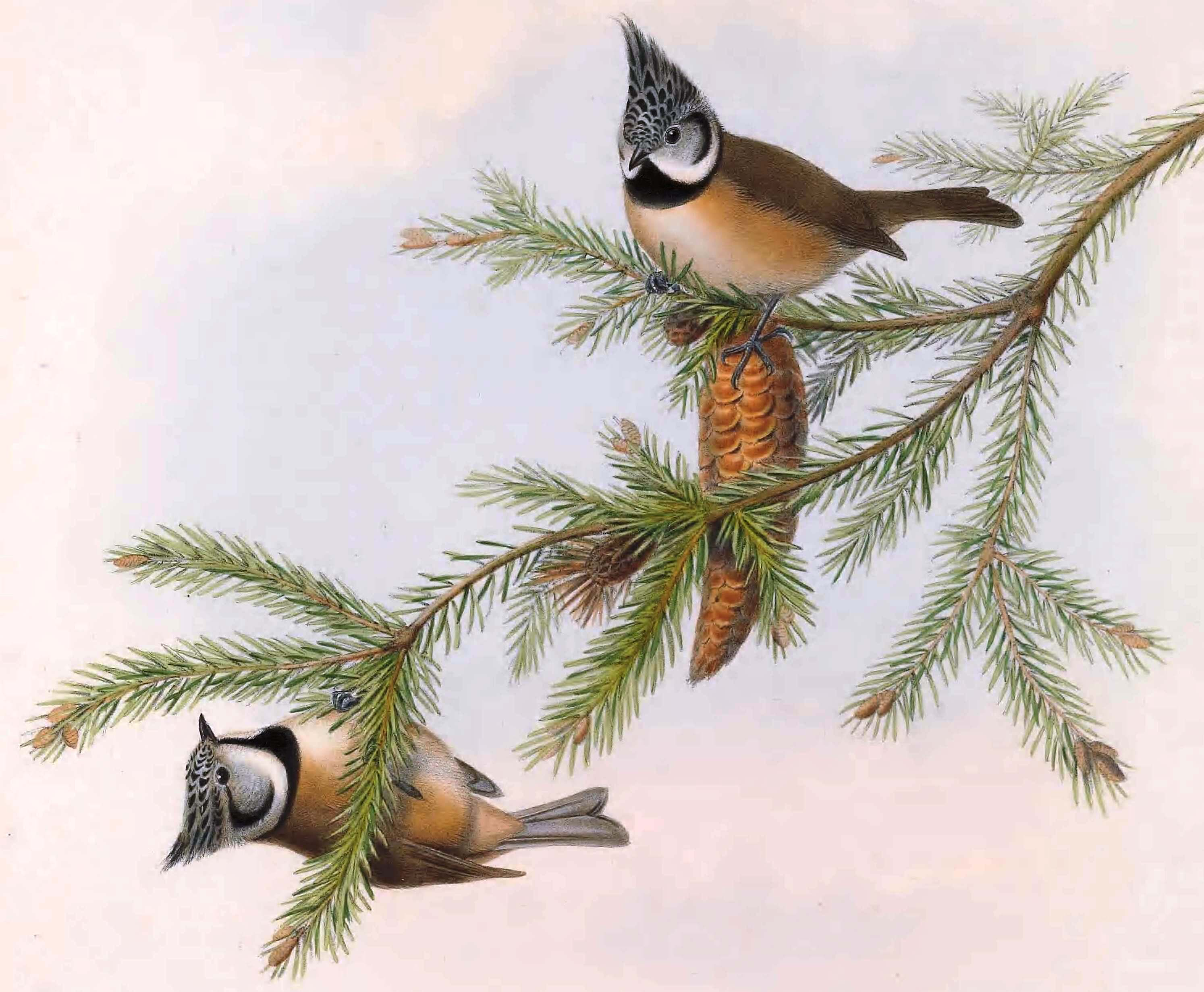 Parus cristatus Gould